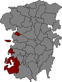 Location of Montmajor in Berguedà